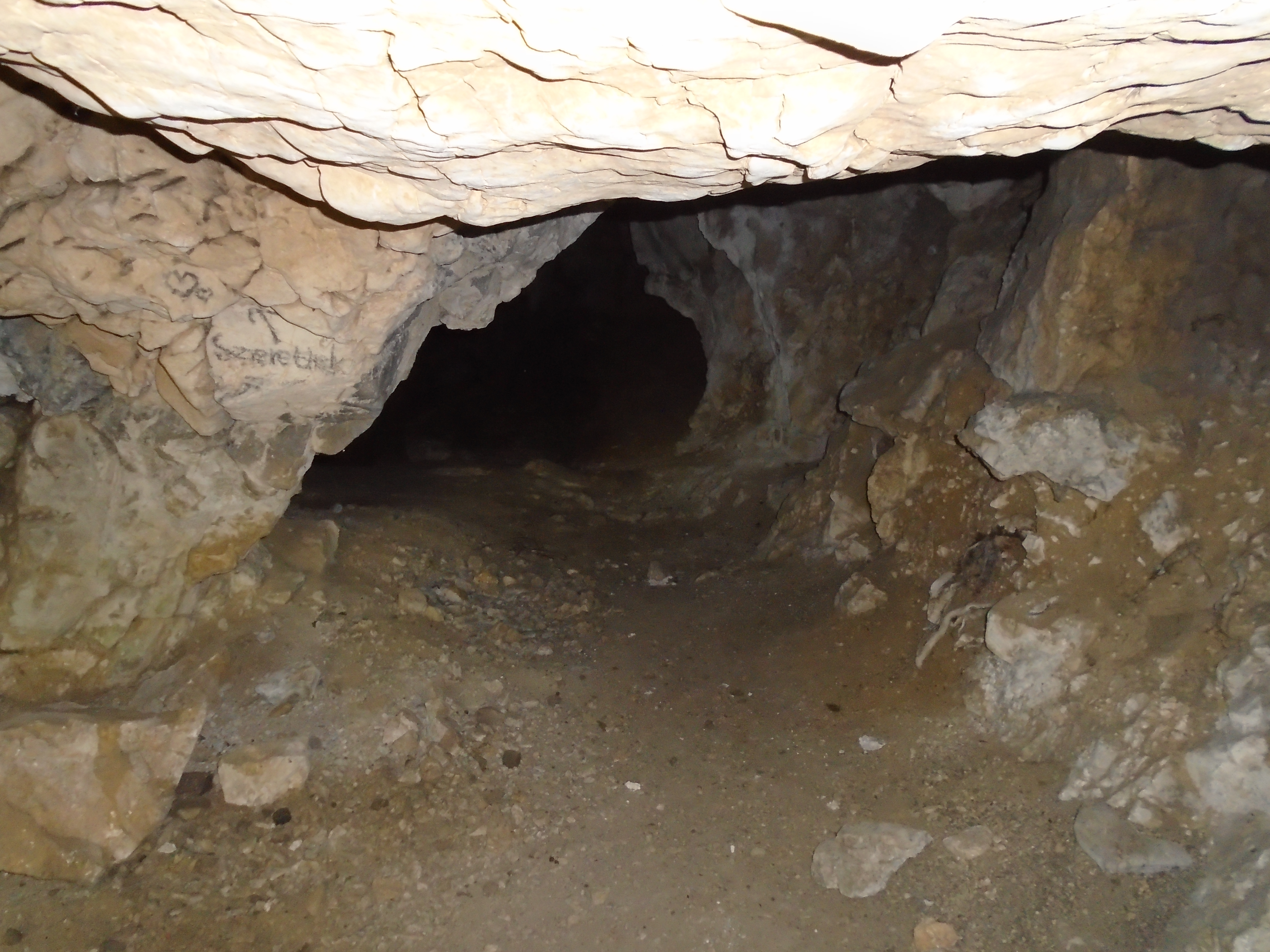 Inside of Remete-völgyi Upper Cave.